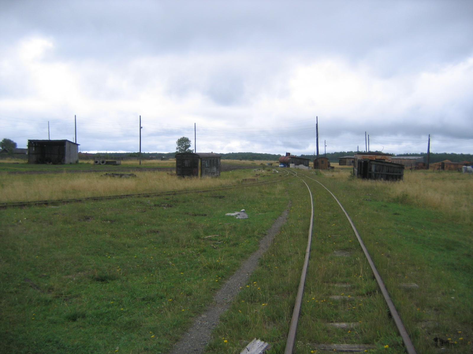 Kalach station, Alapaevsk narrow gauge railway